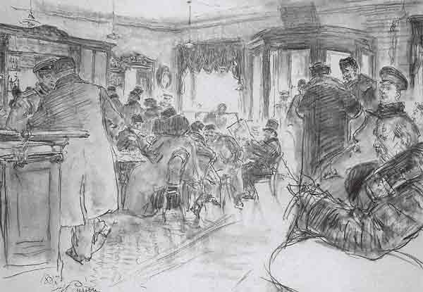 Scene inside cafe "Dominic" (St Petersburg, Nevsky prospect, 24). Sketch by Ilya Repin.